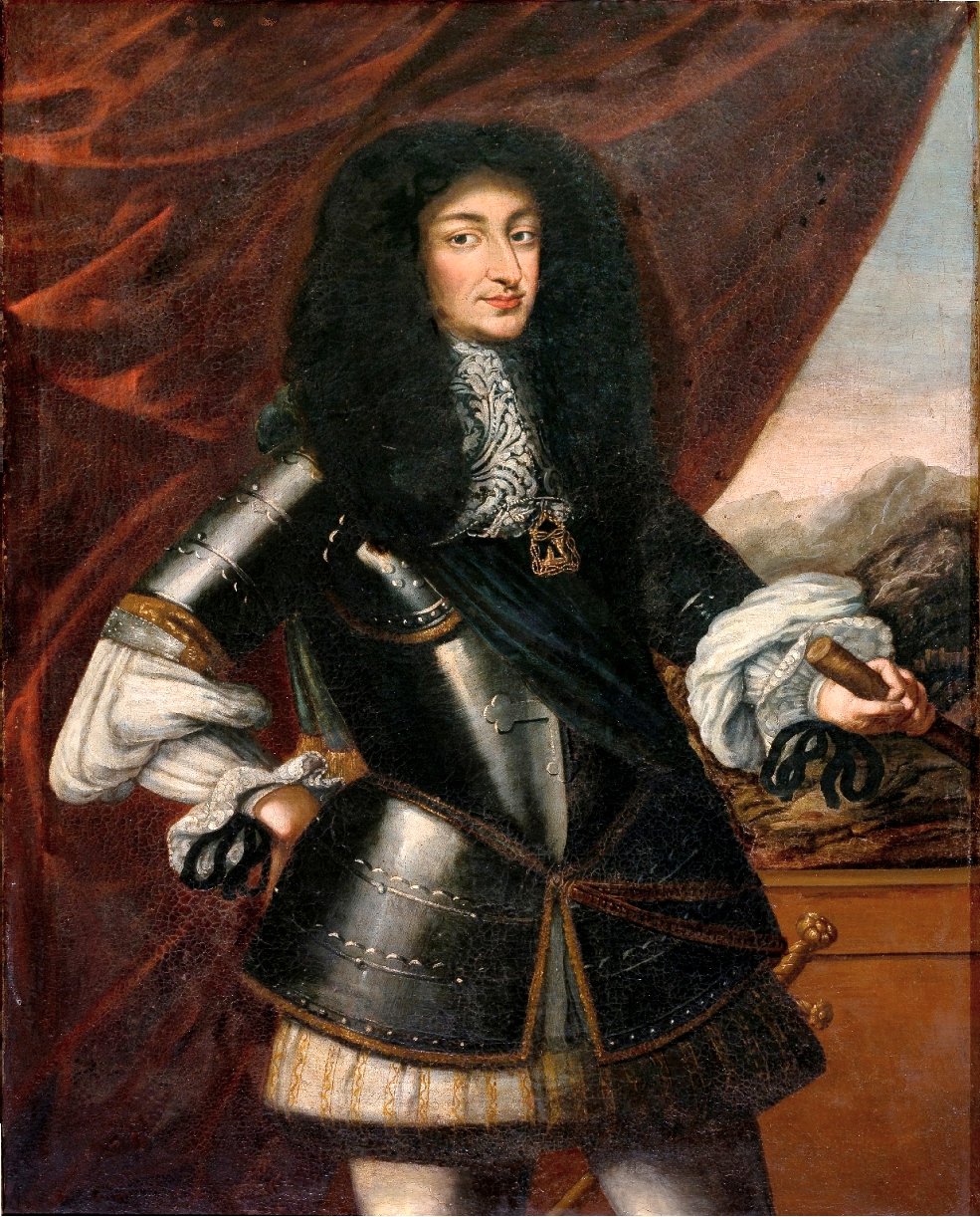 Portrait of Charles Emmanuel II, Duke of Savoy (1634-1675)